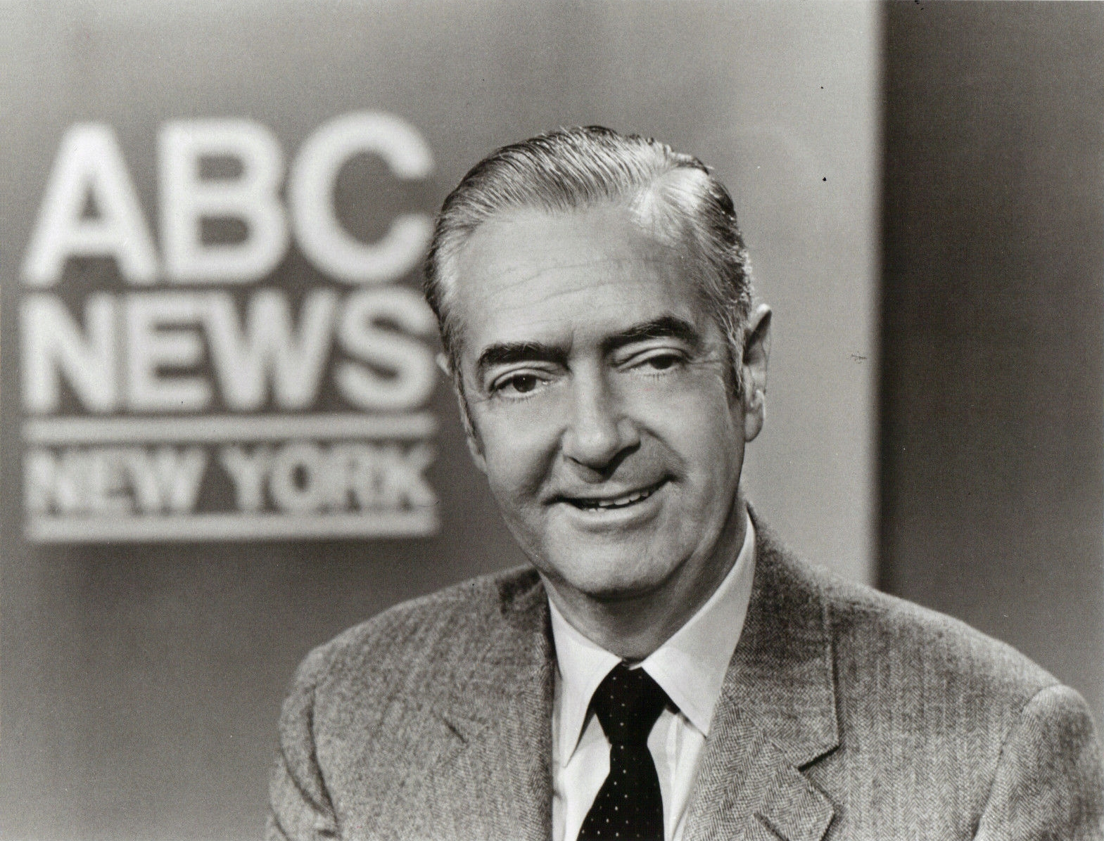 Journalist Howard. K Smith in a publicity photograph for ABC News in 1972